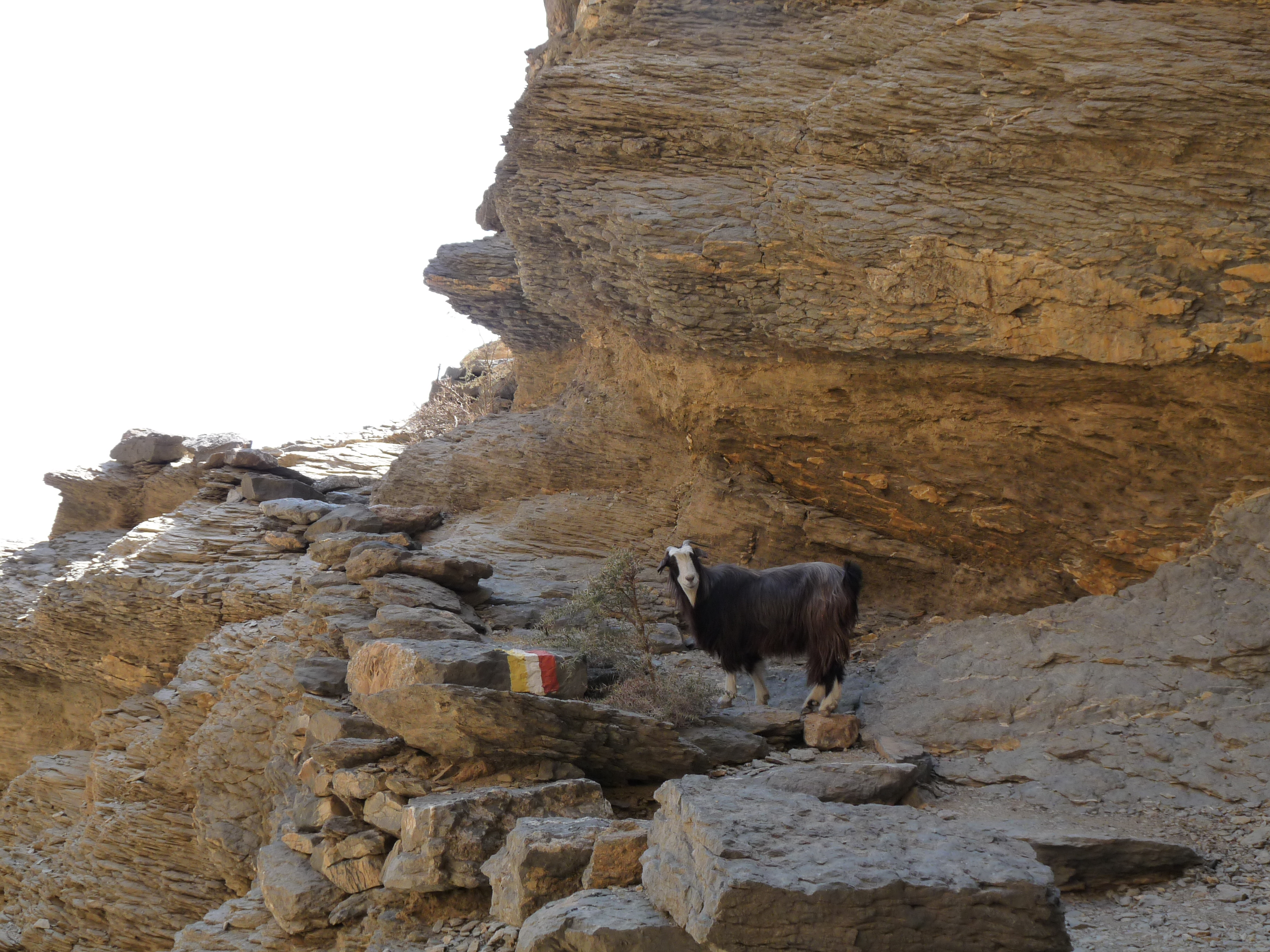 Goat on the trail to abandoned village of Sap Bani Khamis (Northern Oman, Jebel Shams)